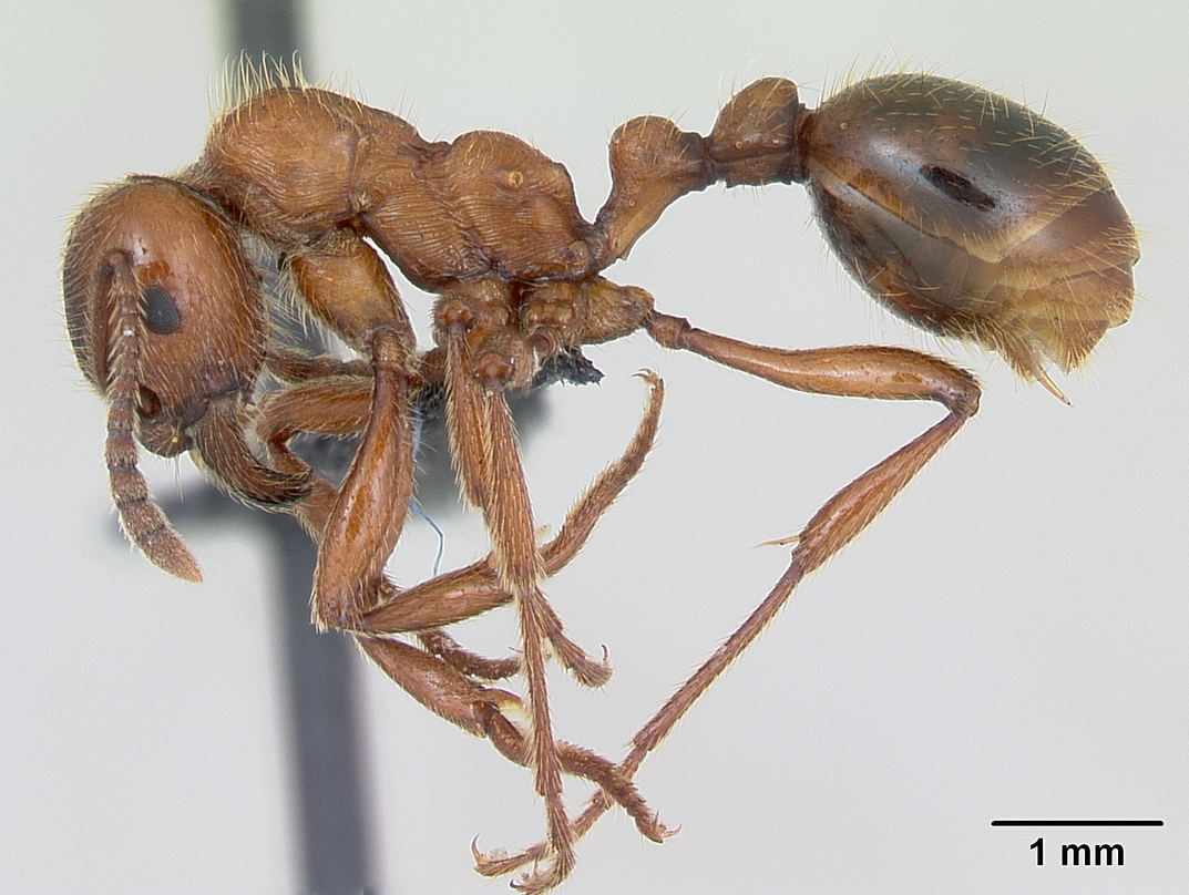 Profile view of ant Manica rubida specimen casent0173135.